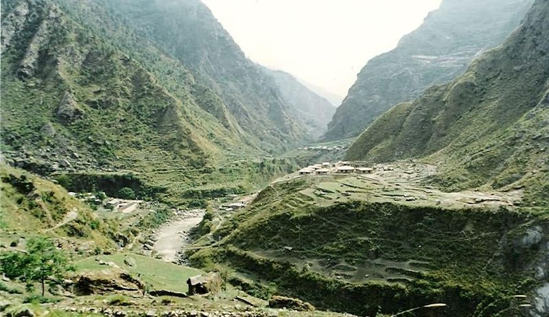 A valley near Wangdue in Western Bhutan